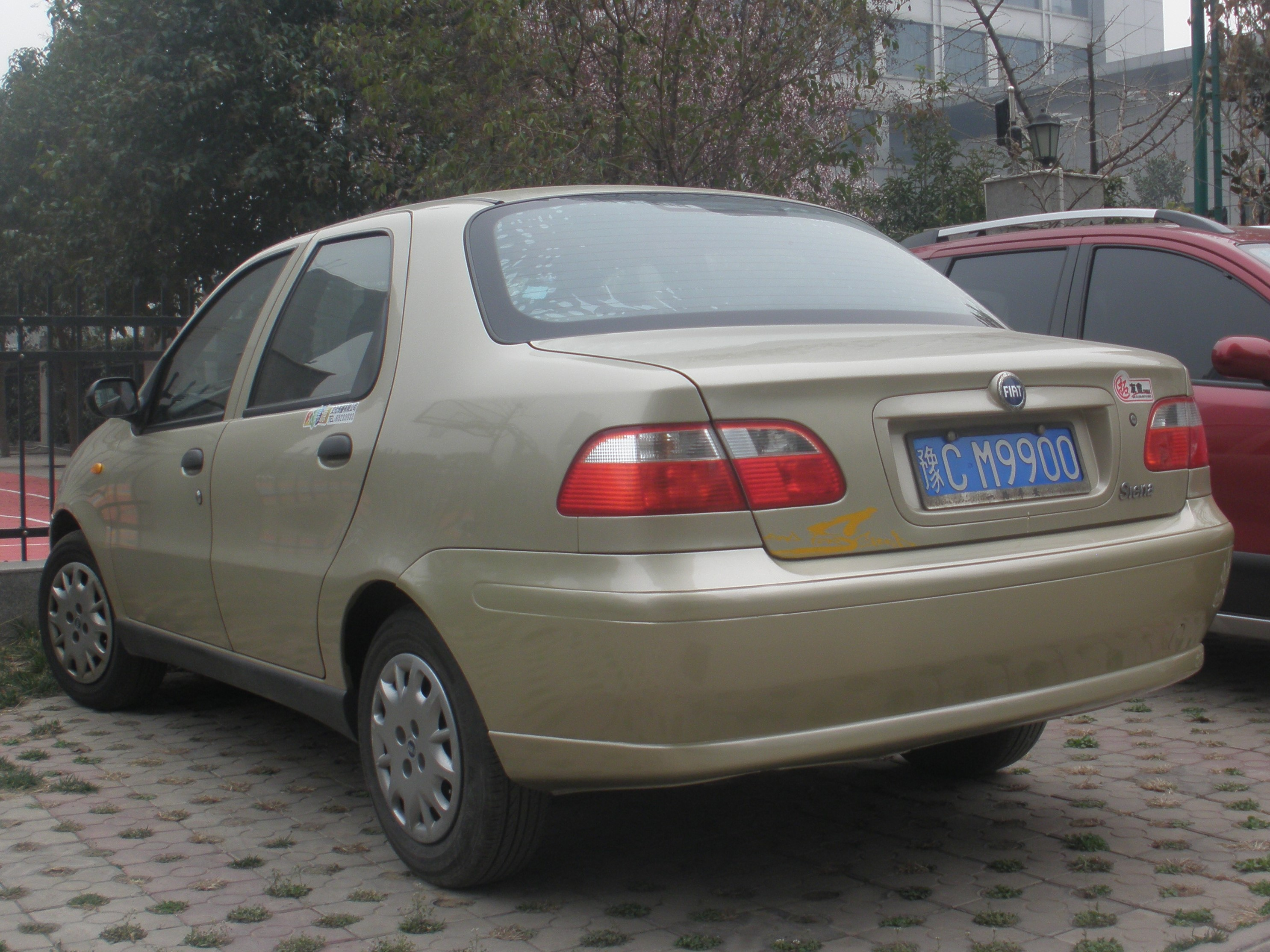 In Henan Province, China